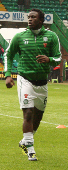 Players of Celtic F.C. before the match between Celtic F.C and ICT on 11/02/2012.